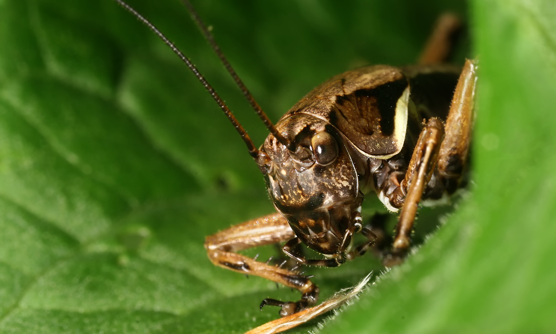 Description: Pholidoptera aptera